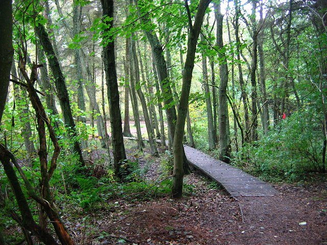 Boardwalk, Beecraigs. Path crossing a burn and marsh in near Beecraigs Reservoir. This square is mostly forest that is managed as a country park.